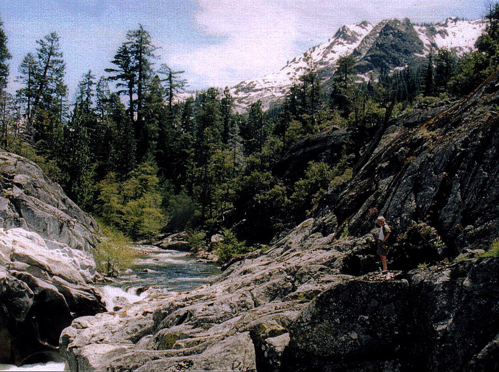 Rubicon River flowing through cataract to Hell Hole Reservoir May 2005